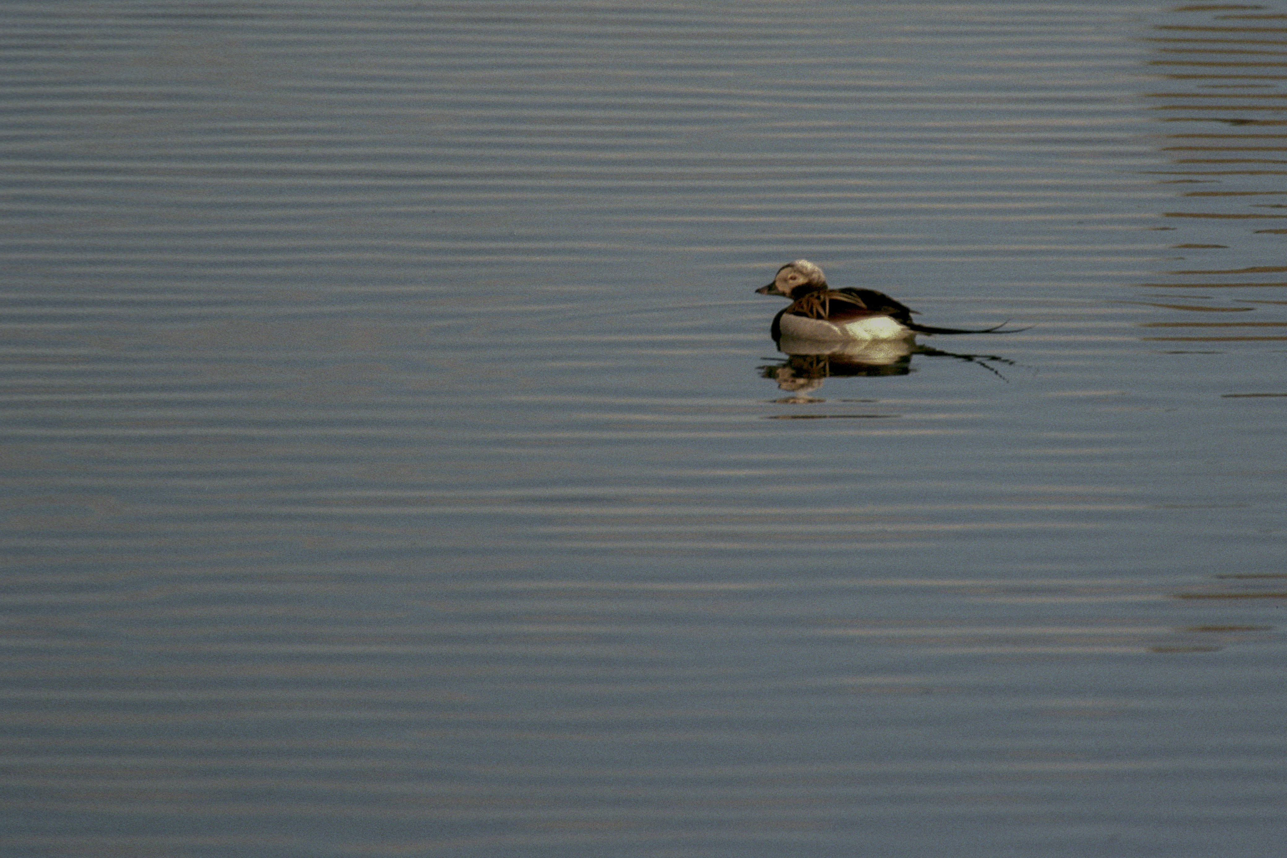 Svalbard, Ny-Ålesund,Long-tailed Duck